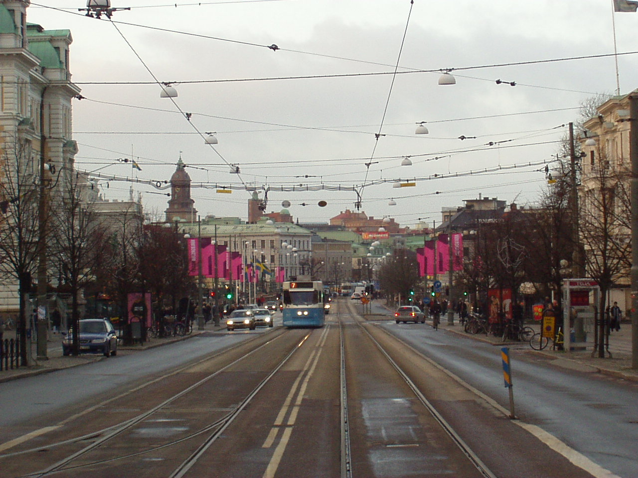 View to the North at Kungsportavenyn in Gothenburg, Sweden.